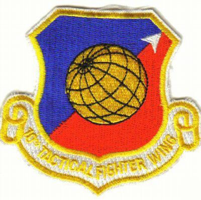 Patch of 10th Tactical Fighter Wing - RAF Alconbury UK Source - Scan of personal patch.